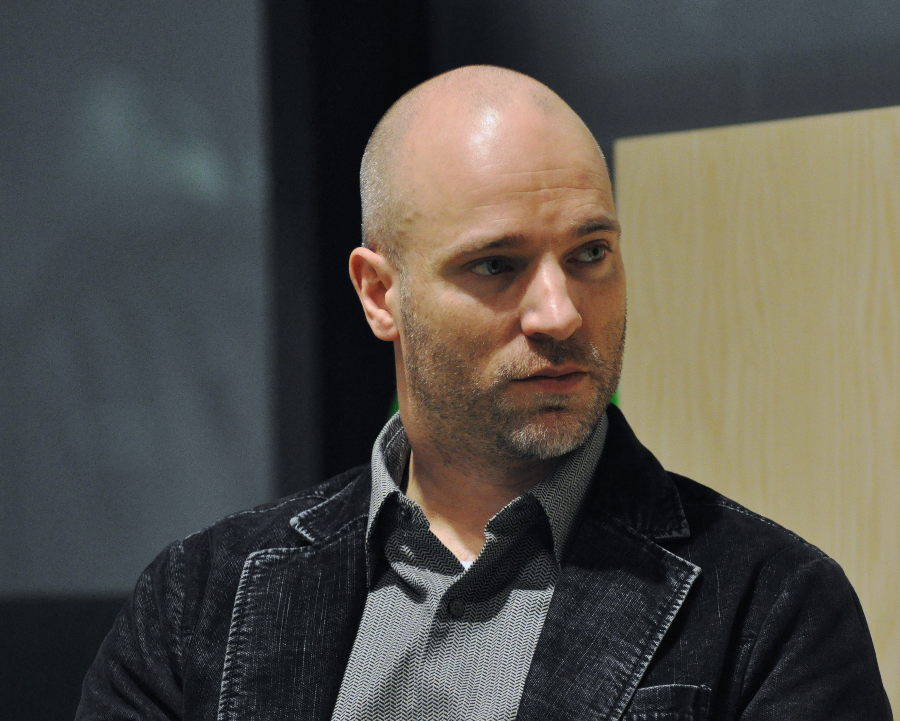 Aku Louhimies, Finnish film director, Helsinki, February 2009.